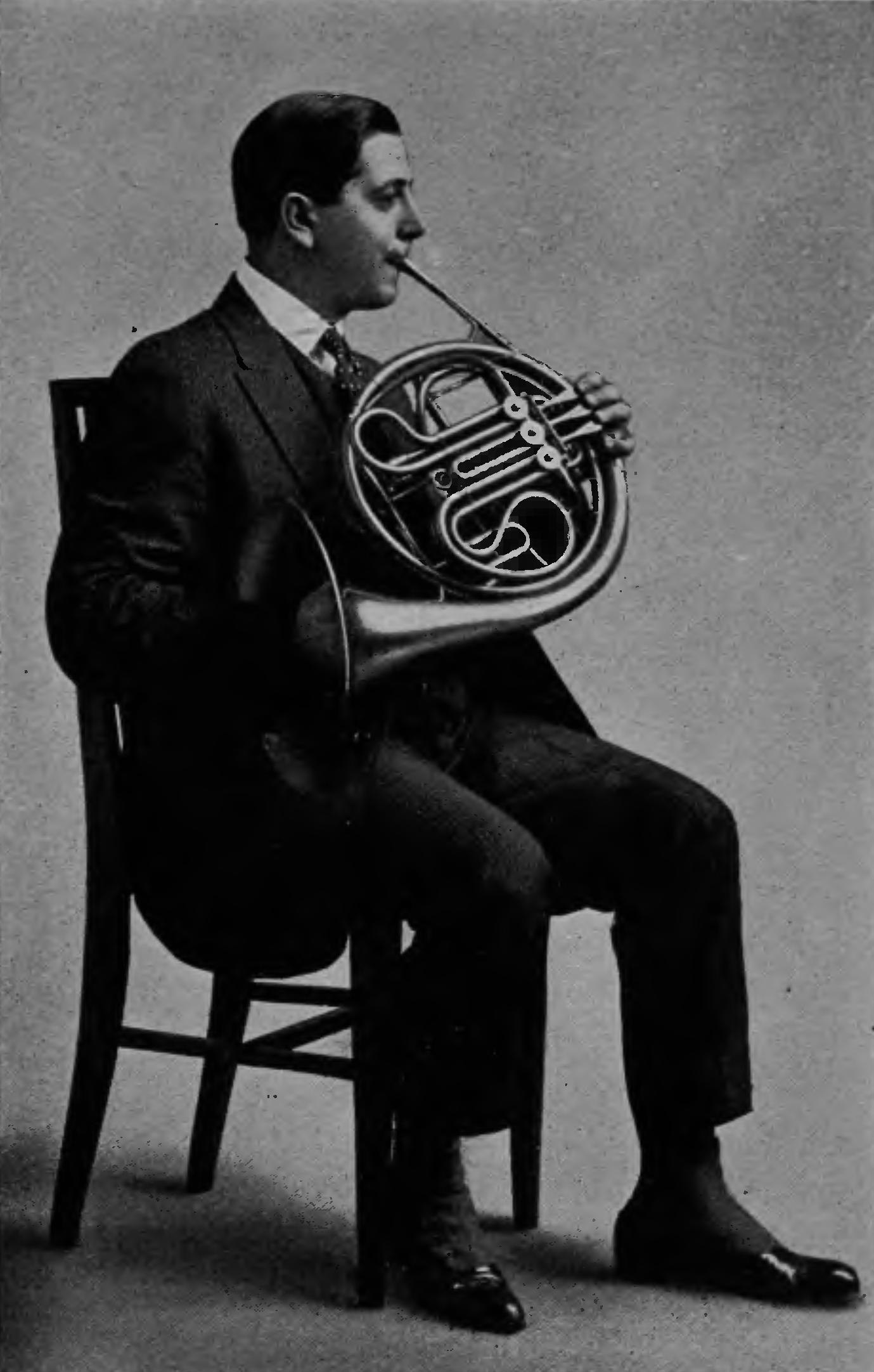 Frank CorradoMetropolitan Opera HouseOrchestra, N. Y.